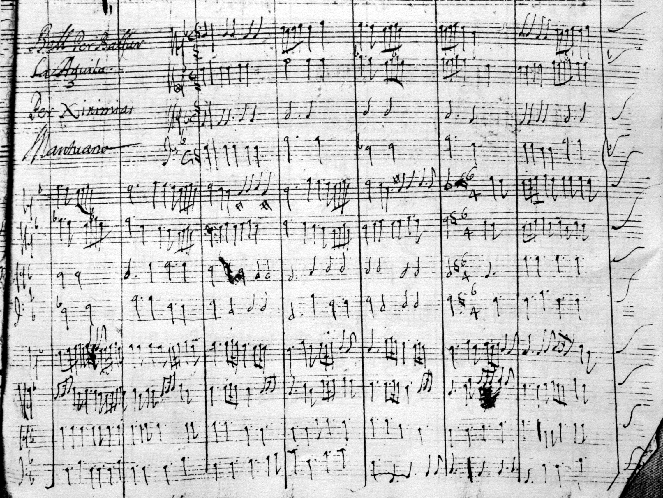 Música del Ball de l'àliga a la processó de Corpus Christi de Barcelona